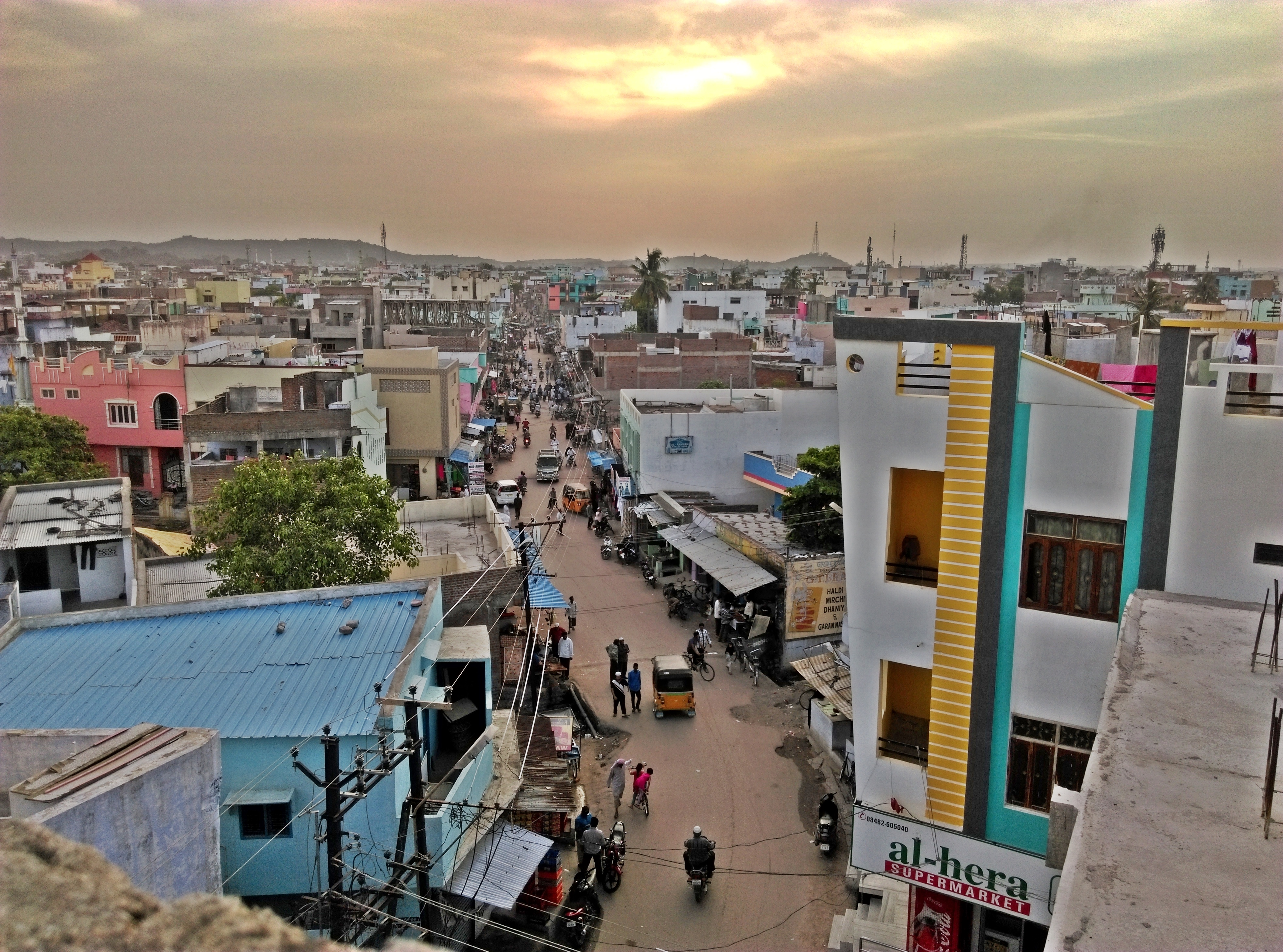 A view of Ahmed Pura Colony which is a locality in Nizamabad city of Telangana state.